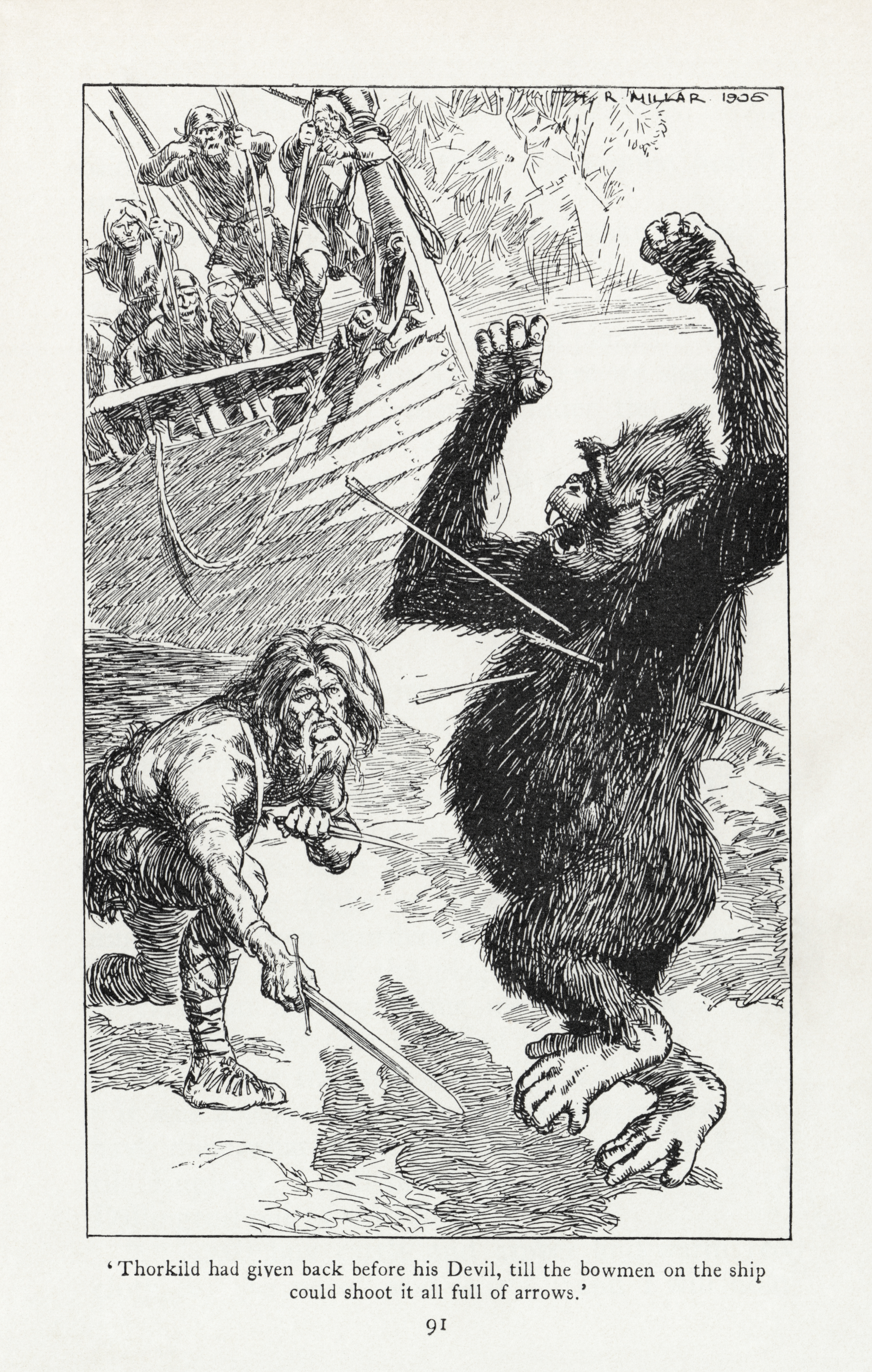 H. R. Millar's 7th illustration to the original edition of Rudyard Kipling's Puck of Pook's Hill, from the chapter "The Knights of the Joyous Venture": "Thorkild had given back before his Devil, till the bowmen on the ship could shoot it all full of arrows". Note: While not as far from right angles as #4 in the set, this still isn't very rectangular. It would be misleading to fix.